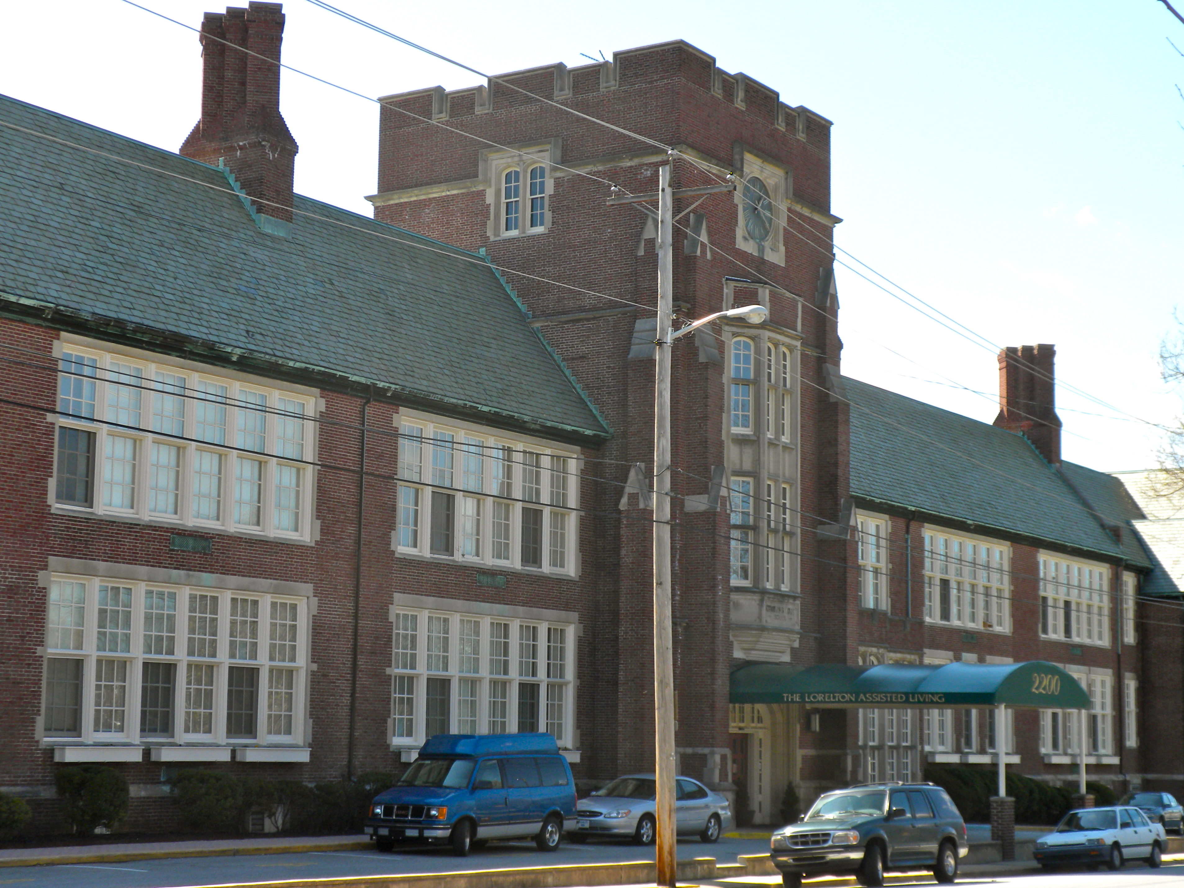 Charles B. Lore Elementary School, now a retirement home, on NRHP since June 16, 1983. At Fourth St. and Woodlawn Ave. Wilmington, Delaware